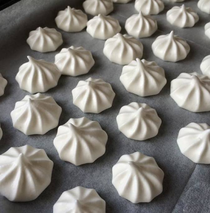 vegan meringue kisses made from aquafaba (chickpea whey)